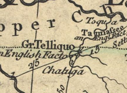 Detail from John Mitchell's "Map of the British and French Dominions in North American," showing the Overhill Cherokee town of Great Tellico and surrounding villages, in what is now Monroe County, Tennessee.